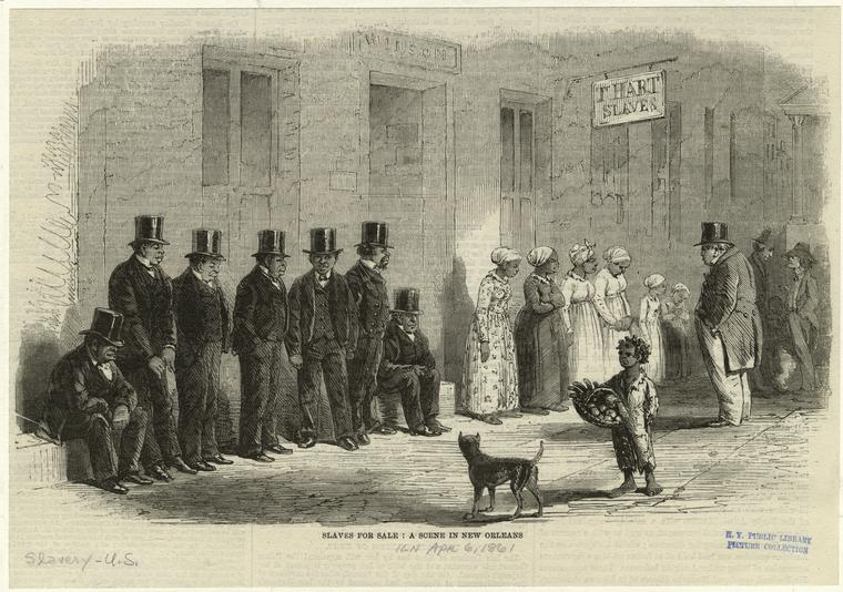 1861: "Slaves for sale, a scene in New Orleans." Republished January 1863 in Harper's Weekly [1] with the following text: A SLAVE-PEN AT NEW ORLEANS—BEFORE THE AUCTION. A SKETCH OF THE PAST. IN connection with the gradual downfall of slavery, we publish on this page an illustration of a gang of negroes in a slave-pen at New Orleans before an auction. The picture is from a sketch taken by a foreign artist before the war. In describing it the artist wrote: "The men and women are well clothed, in their Sunday best—the men in blue cloth of good quality, placed in a row in a quiet thoroughfare, where, without interrupting the traffic, they may command a good chance of transient custom, they stand through a great part of the day, subject to the inspection of the purchasing or non-purchasing passing crowd. They look heavy, perhaps a little sad, but not altogether unhappy."